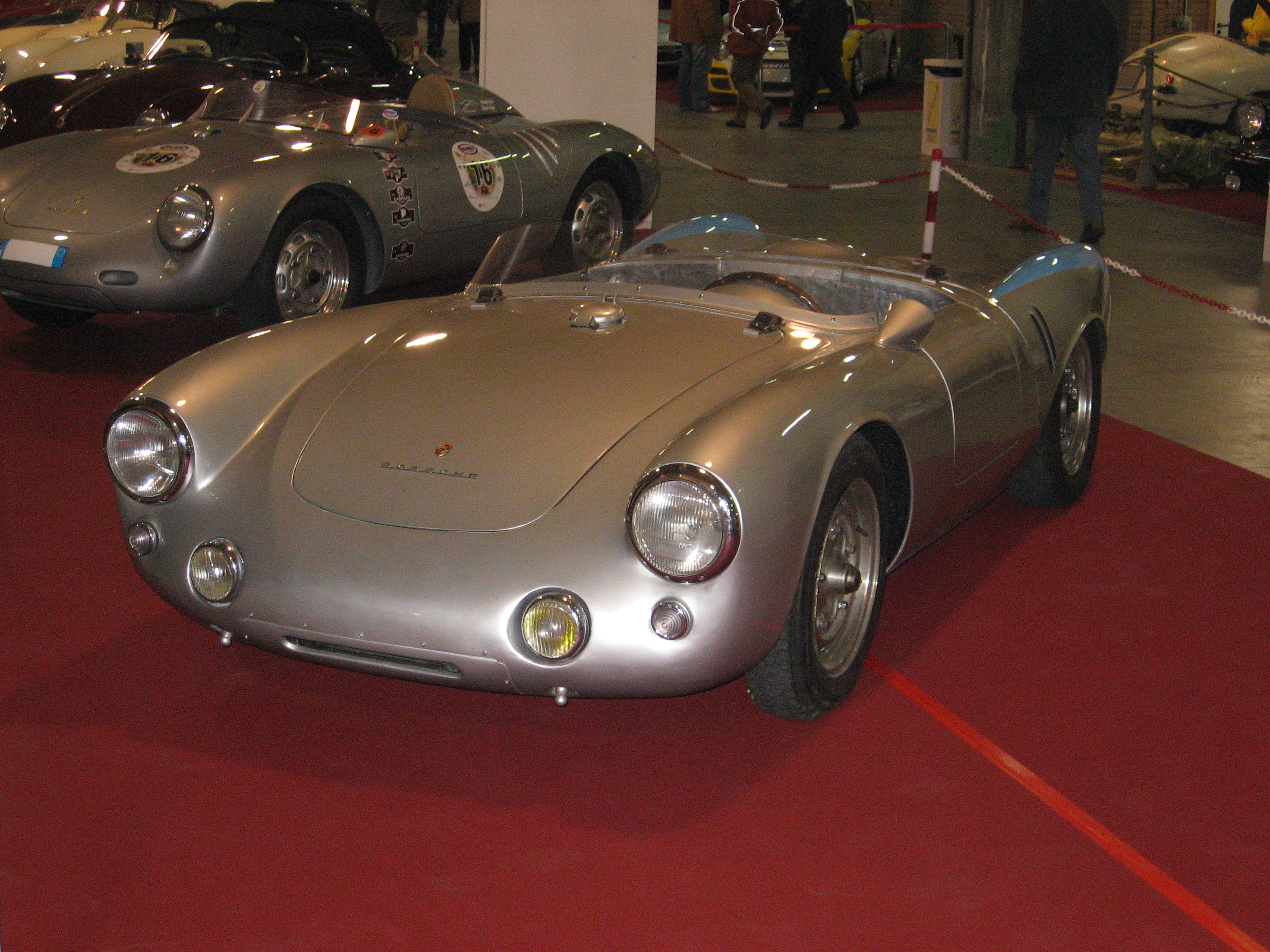 Subject:Porsche 550 RS Author:Luc106 Date:November 24th, 2007 Event:Marke-Retrò 2007 Place/Country: Cesena (FC), Italy I release all rights in the public domain.